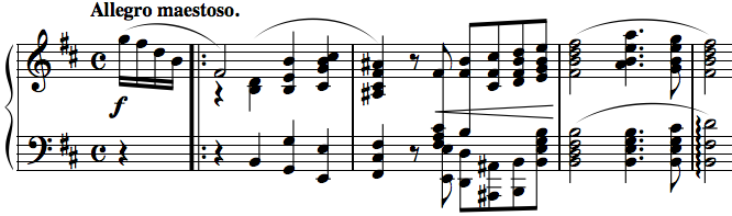 Chopin's Sonata No. 3 in B minor, first couple bars